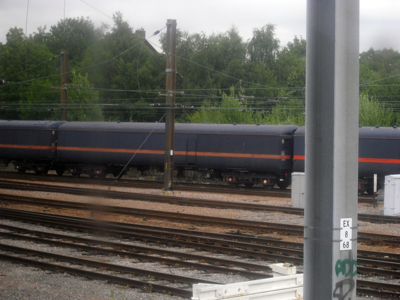 Another angle of train carriages at Bounds Green Depot. The imae was taken through a train window